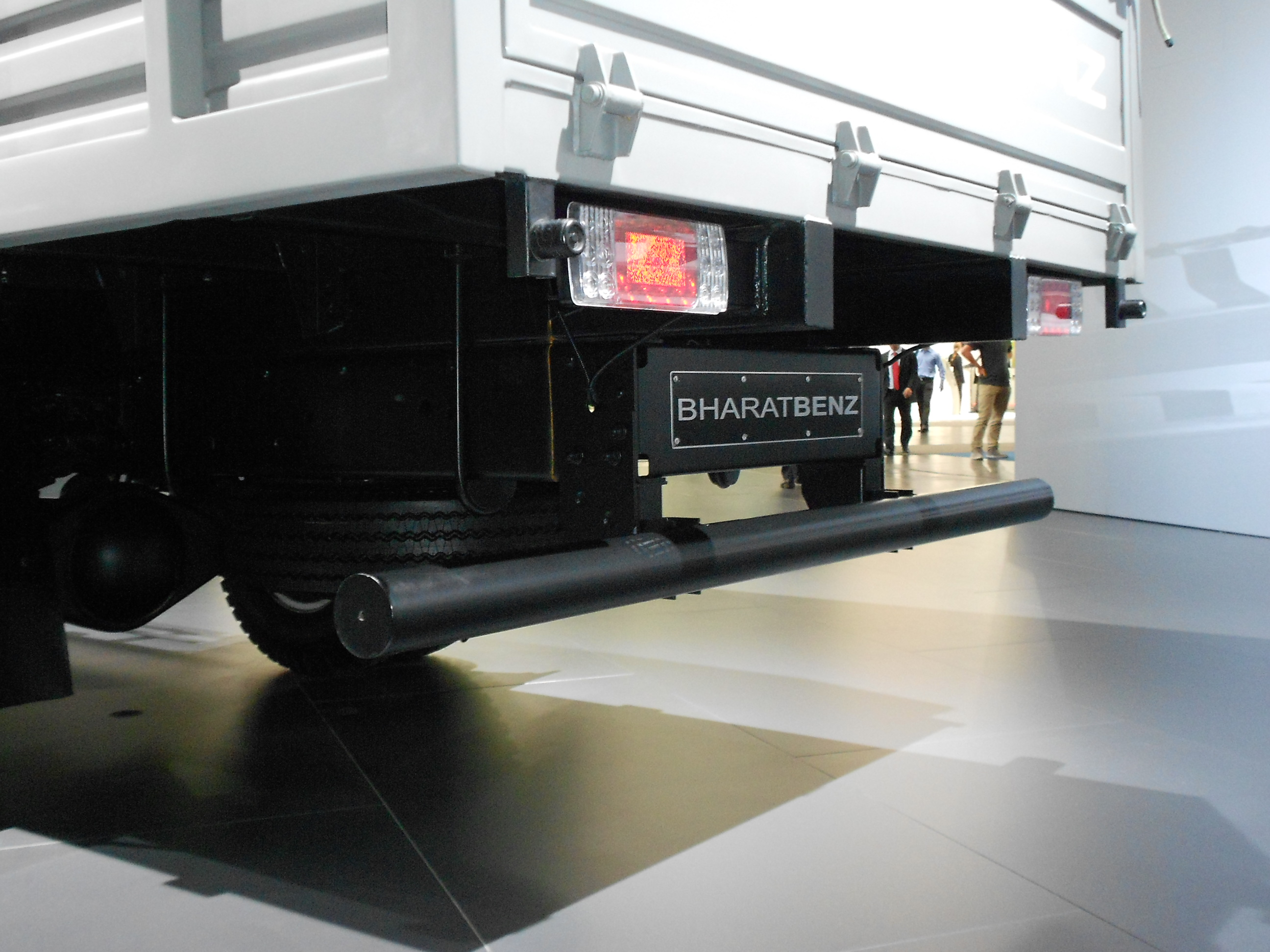 BHARATBENZ Light Duty Truck 914 R. (Since 2014: Medium-Duty Truck). Built 2012, photo taken at exhibition IAA 2012 in Hanover, Germany. Detail: Underride protection.